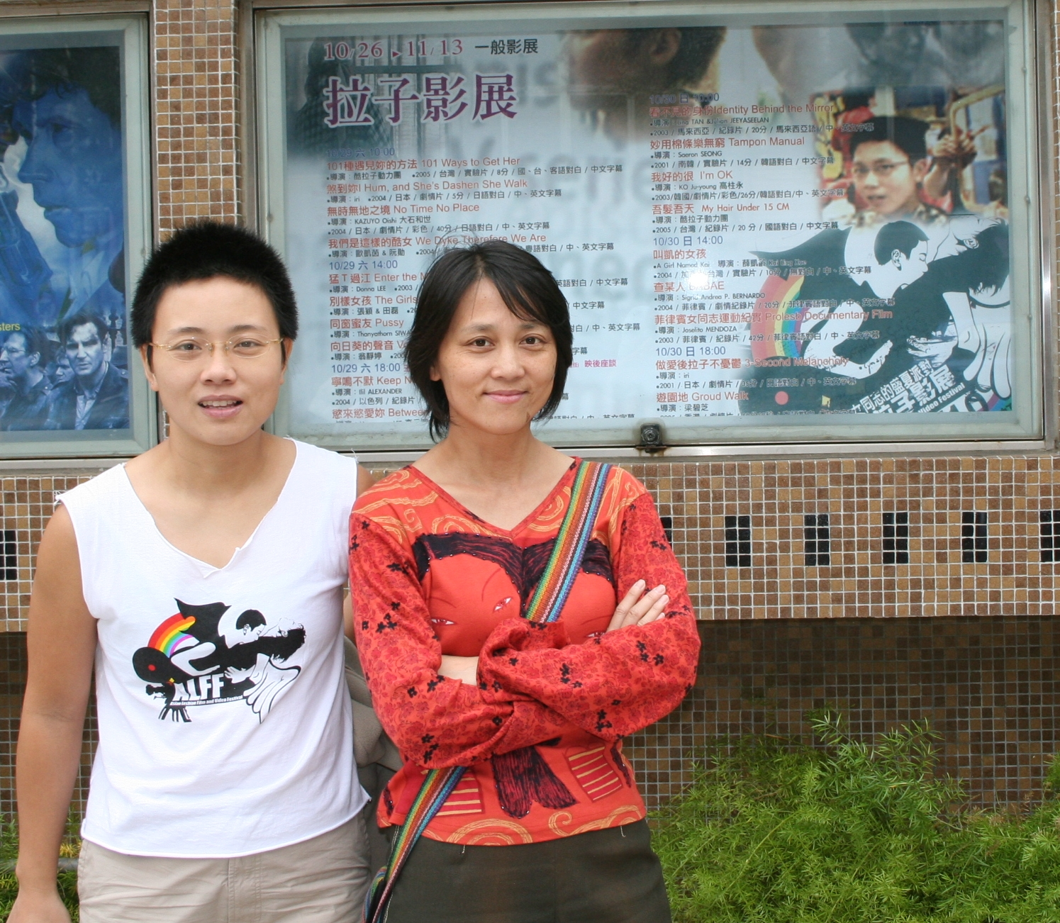 Chen Yu-Rong, Wang Ping, on Asian Lesbian Film and Video Festival Left to right: Chen Yu-Rong, Wang Ping, on the Asian Lesbian Film and Video Festival in front of Image Museum of Hsinchu Culture Bureau ("新竹市文化局影像博物館").